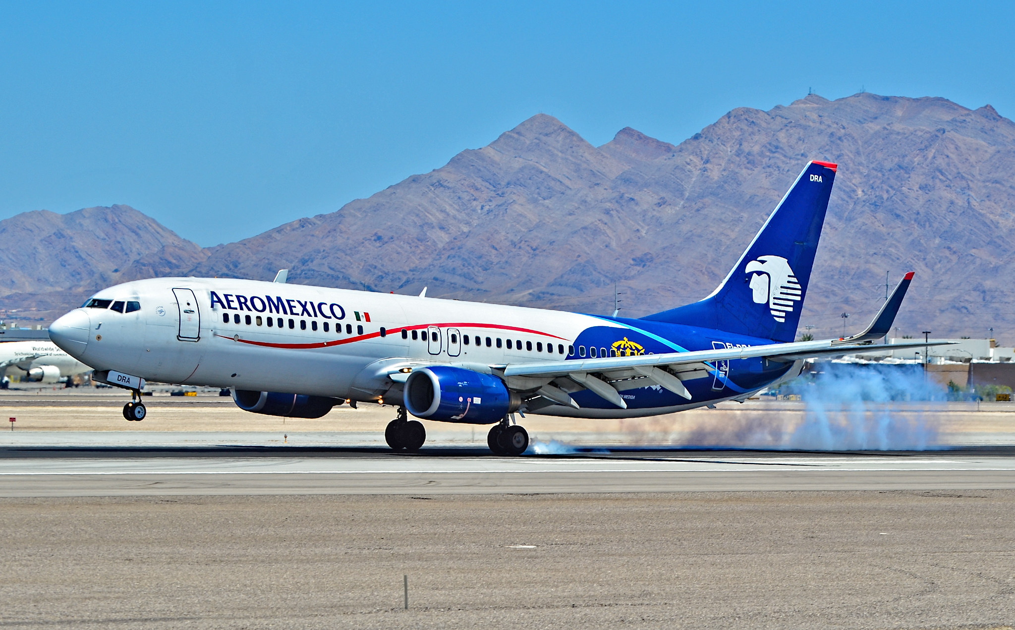 Las Vegas - McCarran International Airport (LAS / KLAS) USA - Nevada August 8, 2014 Photo: Tomás Del Coro